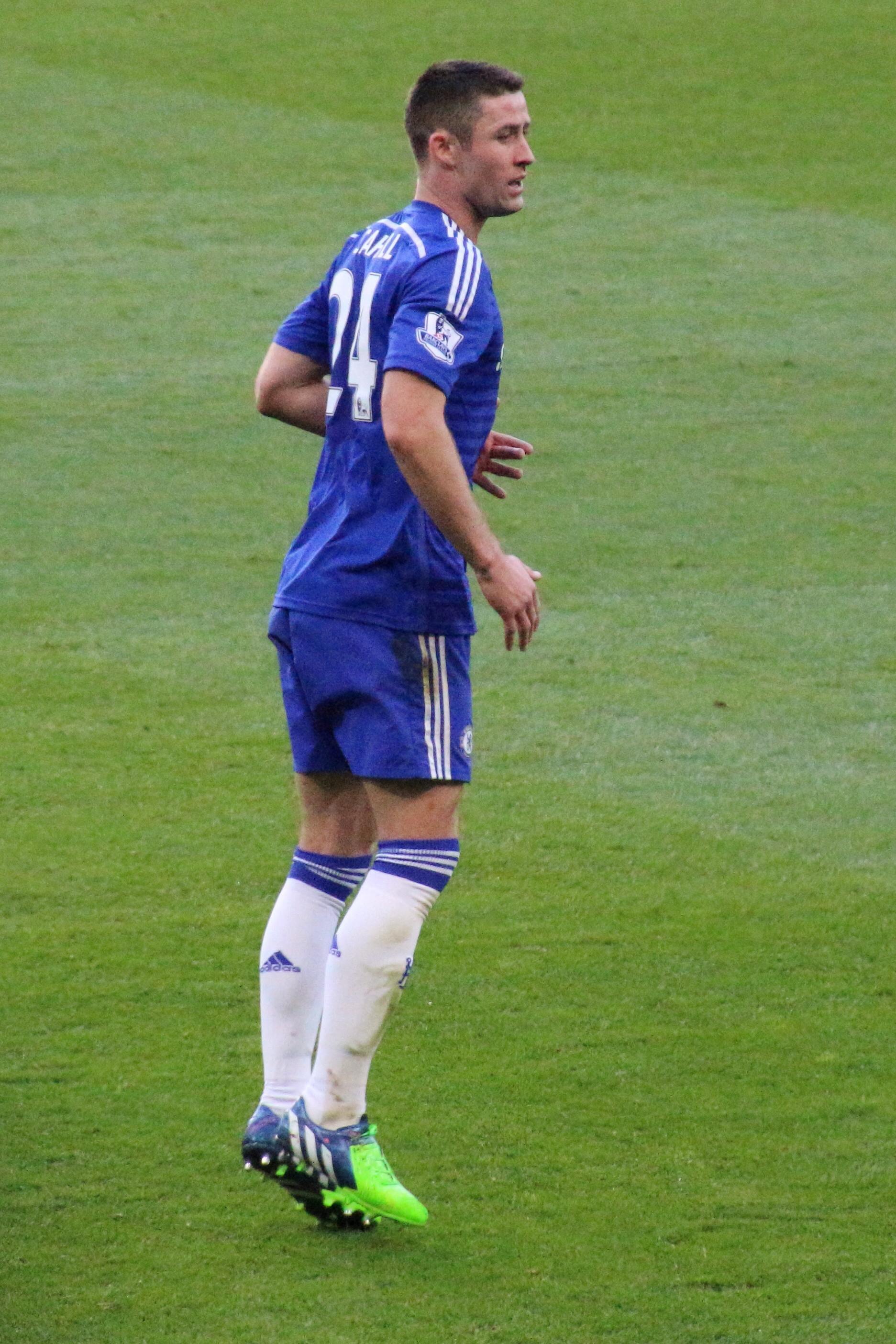 Chelsea 2 QPR 1 Premier League match between Chelsea and Queens Park Rangers at Stamford Bridge on 1 November 2014.